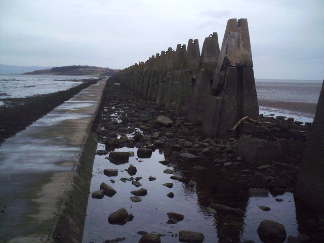 WW2 Anti-submarine fence These pillars on the Cramond Island causeway originally provided a barrier to prevent submarine attacks on Rosyth dockyard. The concrete 'path' on the left is actually a casing to two sewer pipes.